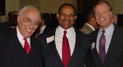 Christopher Cox welcomes columnist Bob Novak and USC Athletics Director Michael Garrett to the Rayburn House Office Building during a USC event. - circa 2003